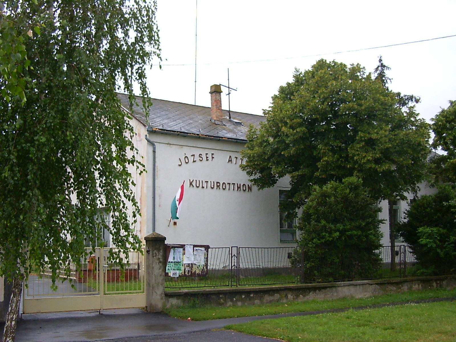 Nyalka, Atilla József Cultural and Community Center